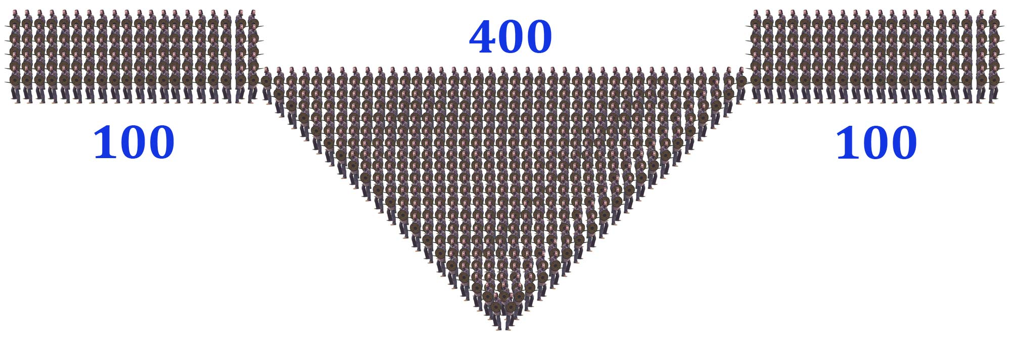 Tactical formation svinefylking after Norwegian Encyclopedia